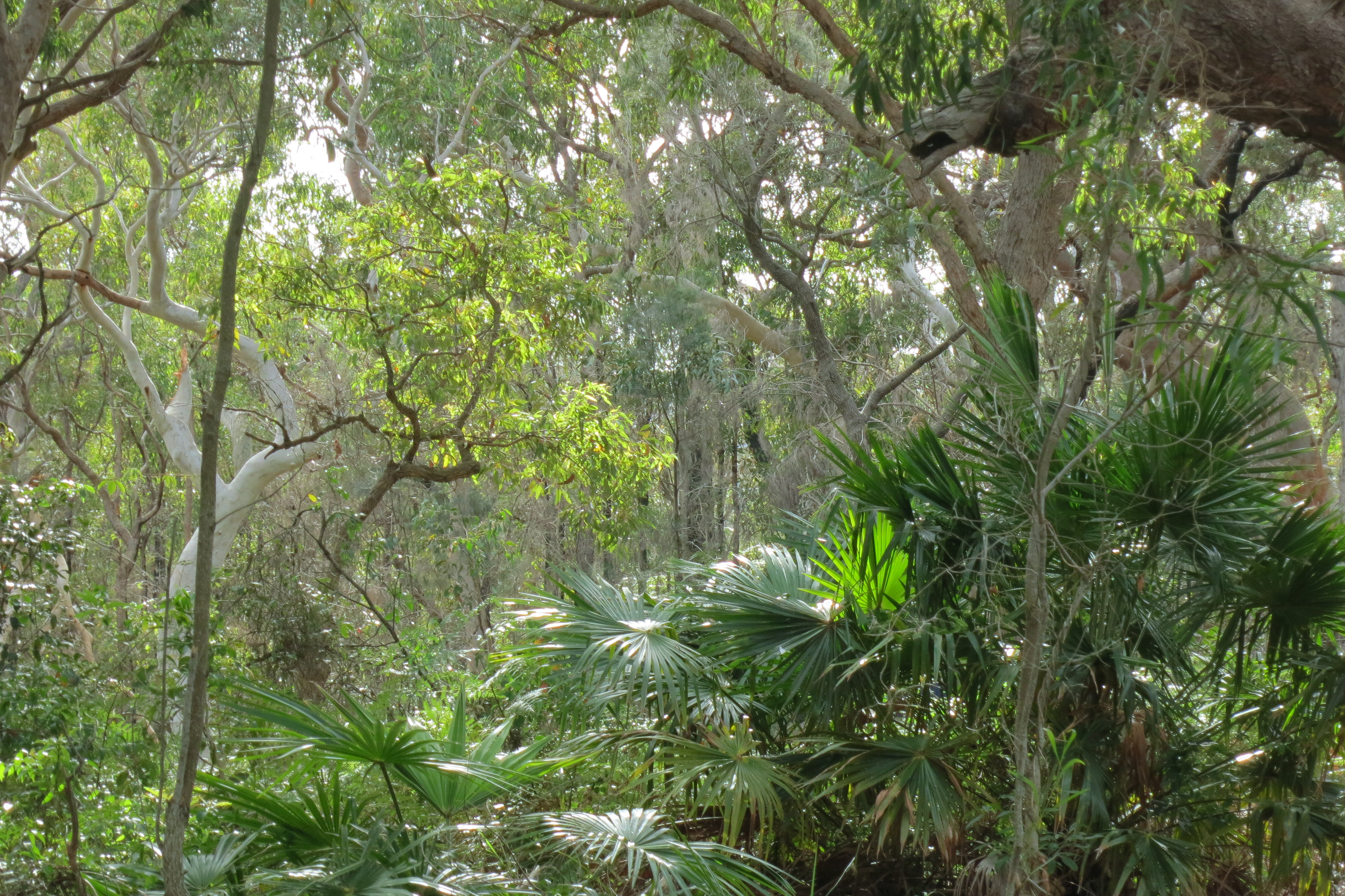 Livistona australis, McKays Reserve, Palm Beach, New South Wales